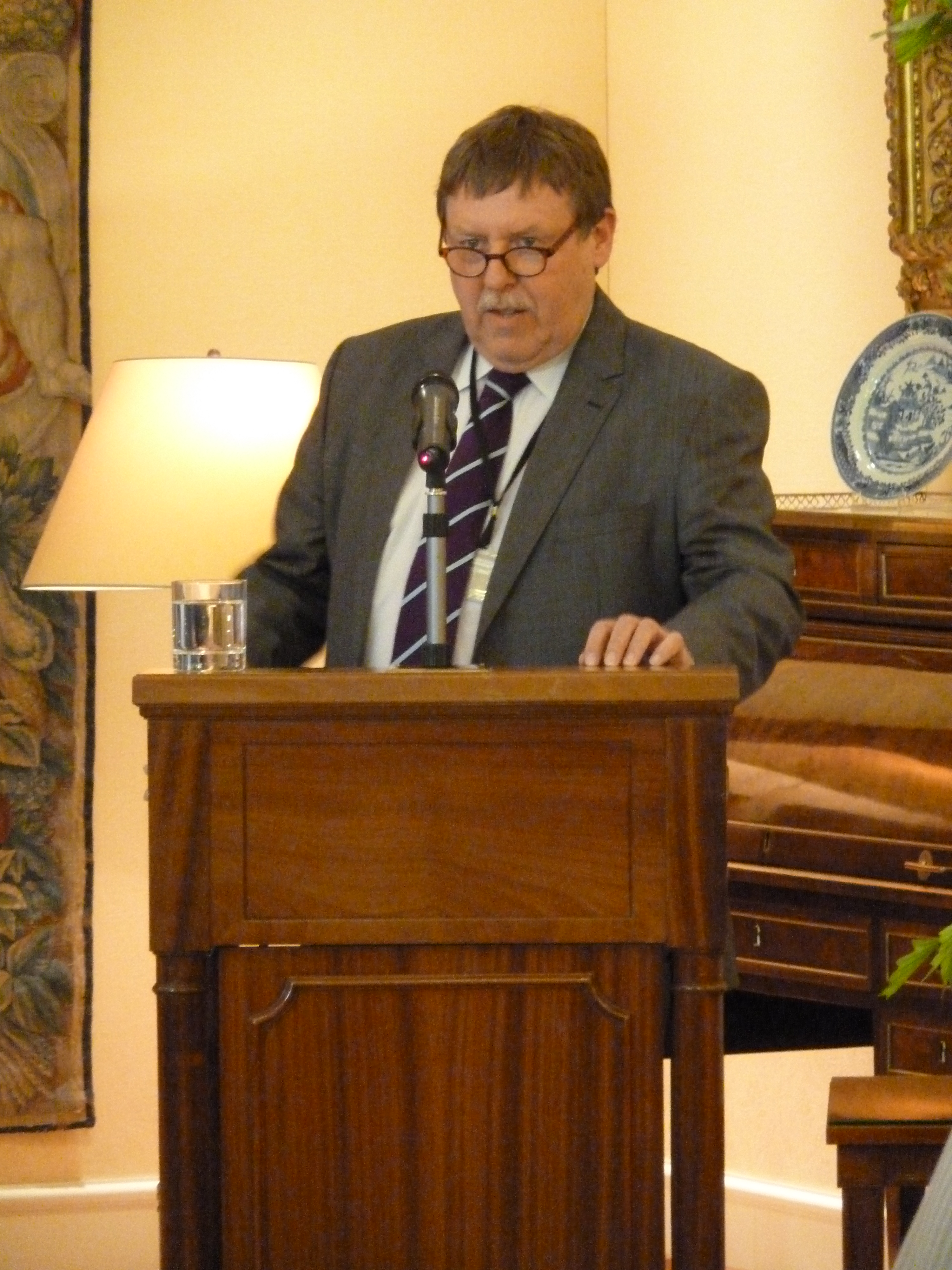 Founding meeting of Wikimedia Belgium in the drawing rooms of the president of the Belgian Chamber of Representatives, Brussels, Belgium